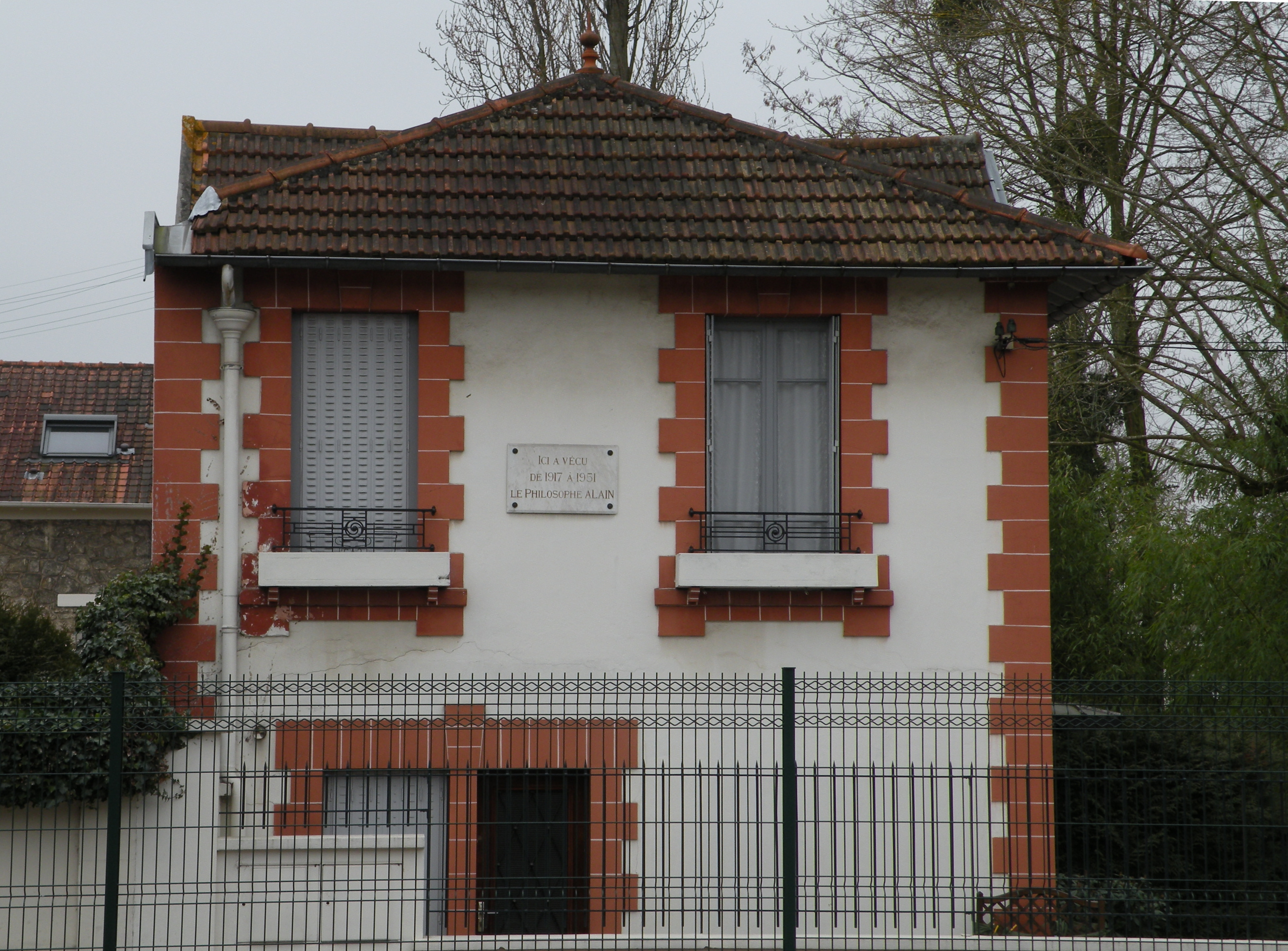 Alain's house located in 75, avenue Emile-Thiébaut in Le Vésinet.